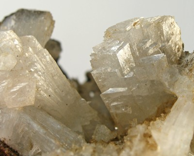 Epistilbite Locality: Fossárfell, Berufjördur, Suður-Múlasýsla, Iceland (Locality at ) Size: 4.4 x 1.4 x 1.4 cm. Lustrous, translucent, colorless epistilbite blades fill the sculptural vug in basalt matrix on this fine piece from a classic Iceland locale - Fossarfell. The interesting, free-standing, stepped-growth, isolated crystal is 1.5 x 1.0 cm. Epistilbite is a relatively uncommon zeolite group mineral and this is a highly representative specimen from this locale.